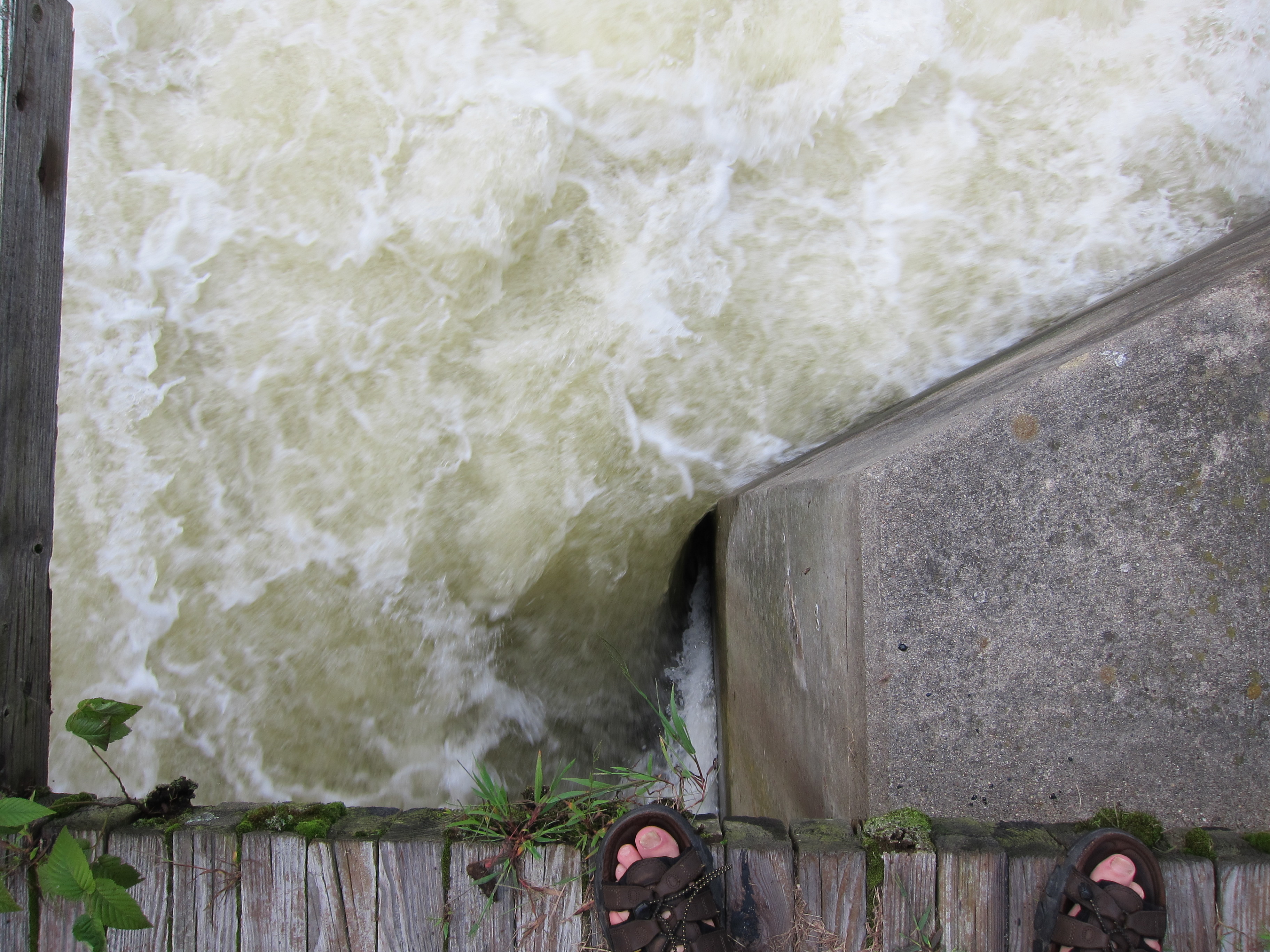 Outflow from Swartswood Lake, NJ, on September, 2011 after more than 6 inches of rain fell from Hurricane Irene. Just beyond the Swartswood Lake Dam, the river is forced to narrow by a concrete bridge support. Flow separation is clearly evident at the sharp bend, just above the vena contracta